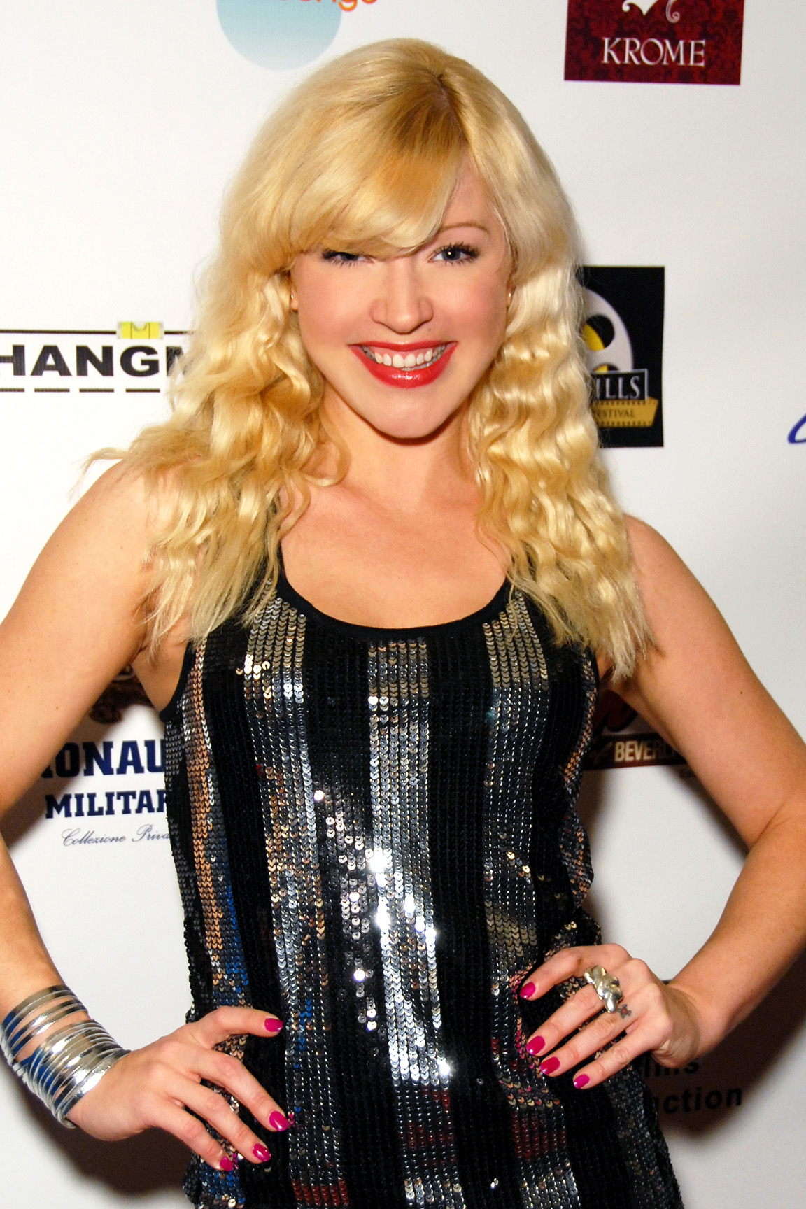 Jessica Kiper attending the Beverly Hills Film Festival - Beverly Hills, CA on October 21, 2010 - Photo by Glenn Francis of